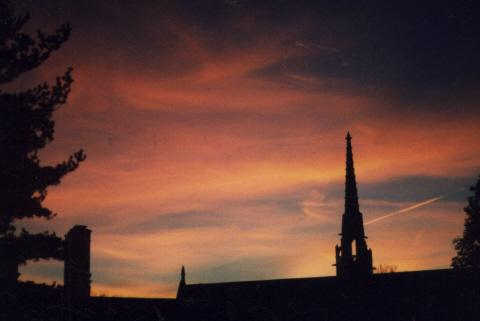 Sunset at Bryn Mawr College. The spire is that of Goodhart Hall, the main performance space.